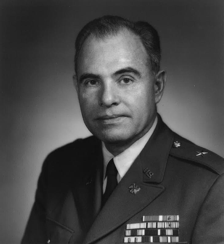 Charles L. Southward as Chief of the Army Division, National Guard Bureau